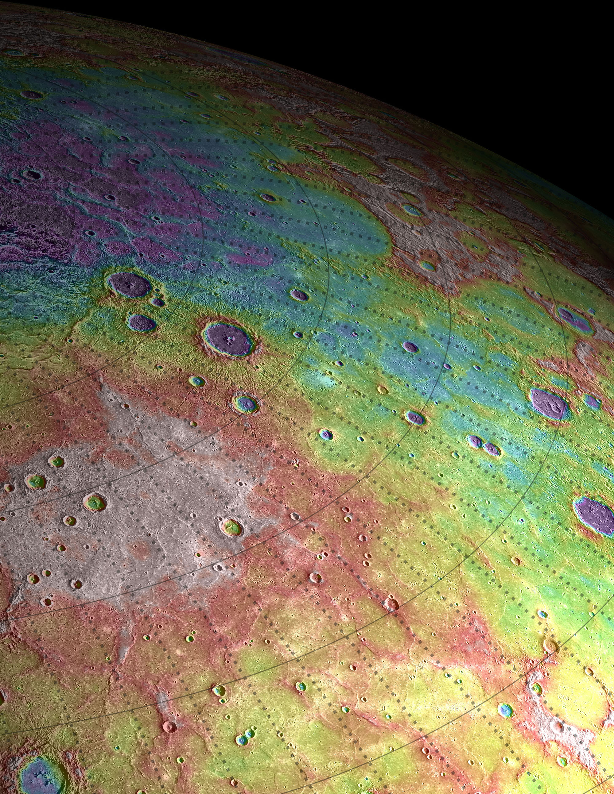 Scale: The width of this image is about 250 kilometers (150 miles) Topographic information from the Mercury Laser Altimeter (MLA) is used to colorize this image mosaic of Mercury's northern region. The purple colors are low and white is the highest; the total range of heights shown in this view is about 1 kilometer. Note added in 2019: The names of the prominent dark violet craters to the left of the center are Gaudí and Stieglitz. Behind them in the upper centre of the image in cyan appears Mendelssohn crater. Hokusai is located in the lower left-side corner of the image. At half distance between Hokusai and Gaudí are three craters in green color, the right one near the center of the reddish white highland is Rivera. The Goethe crater is not visible in this image. The MESSENGER spacecraft is the first ever to orbit the planet Mercury, and the spacecraft's seven scientific instruments and radio science investigation are unraveling the history and evolution of the Solar System's innermost planet. Visit the Why Mercury? section of this website to learn more about the key science questions that the MESSENGER mission is addressing. During the one-year primary mission, MDIS acquired 88,746 images and extensive other data sets. MESSENGER is now in a yearlong extended mission, during which plans call for the acquisition of more than 80,000 additional images to support MESSENGER’s science goals. Credit: NASA/Johns Hopkins University Applied Physics Laboratory/Carnegie Institution of Washington/Brown University NASA image use policy. NASA Goddard Space Flight Center enables NASA’s mission through four scientific endeavors: Earth Science, Heliophysics, Solar System Exploration, and Astrophysics. Goddard plays a leading role in NASA’s accomplishments by contributing compelling scientific knowledge to advance the Agency’s mission. Follow us on Twitter Like us on Facebook Find us on Instagram